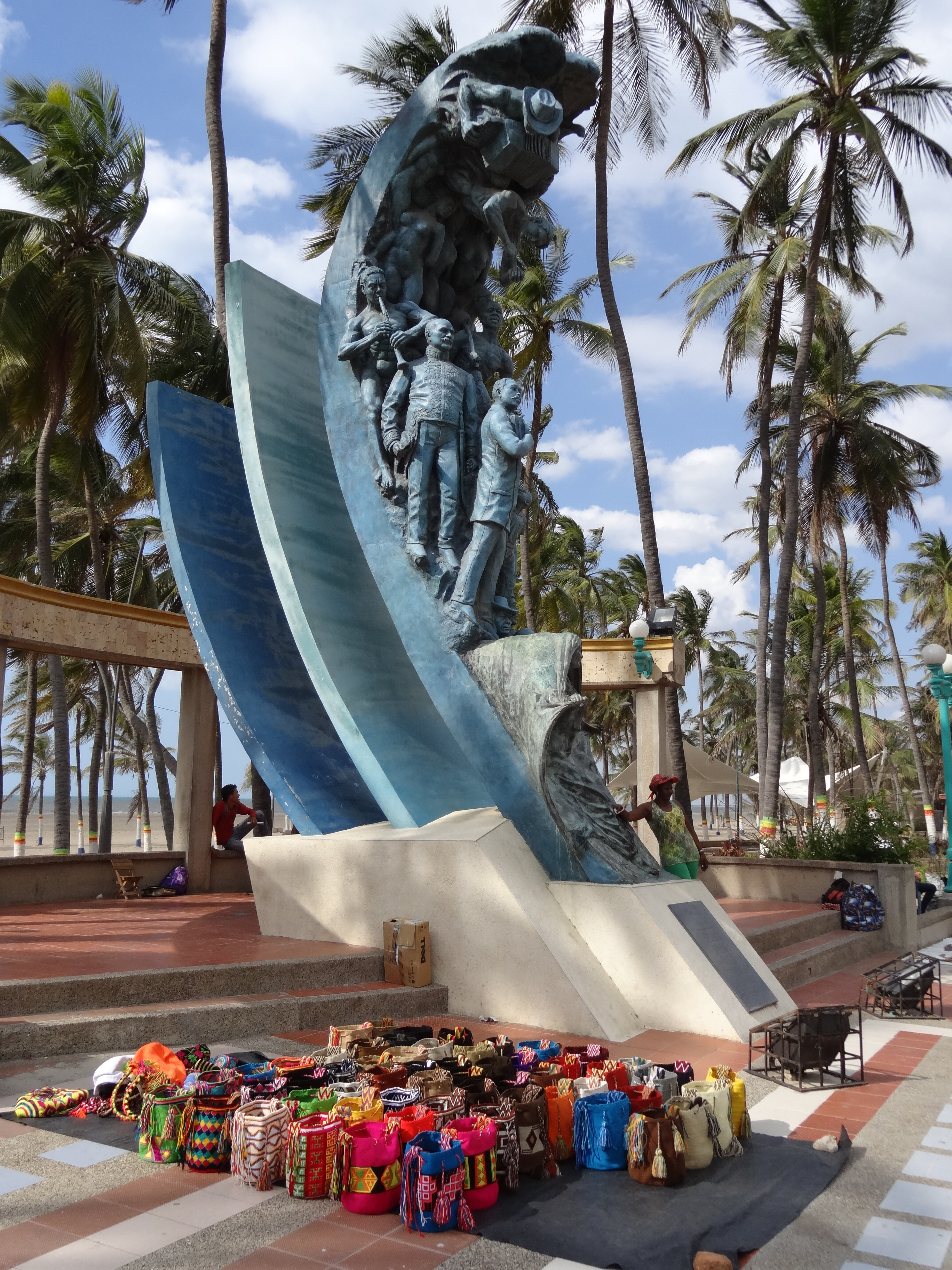 monumento Riohacha